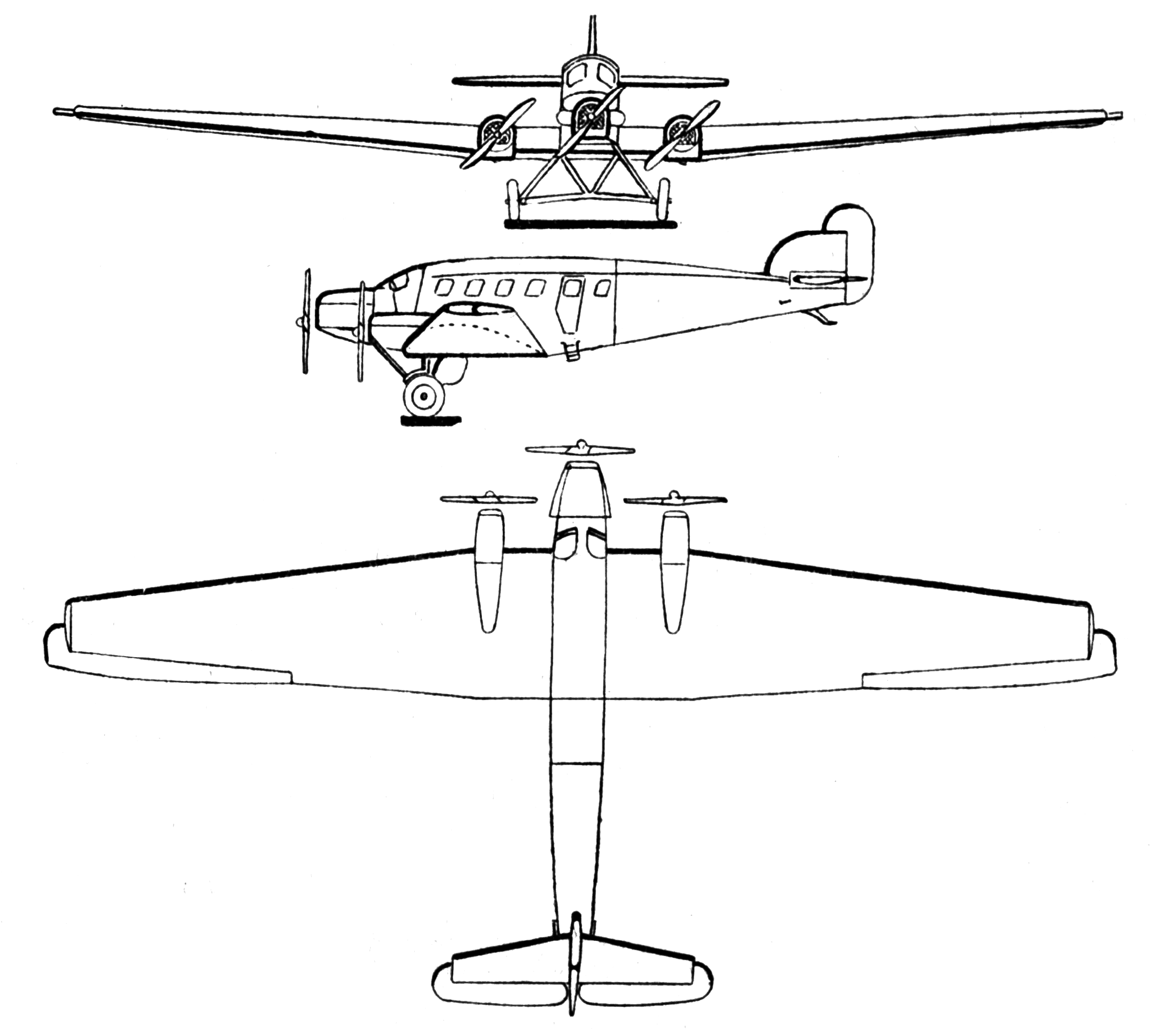 Junkers G.23 3-view drawing from Les Ailes March 11, 1926